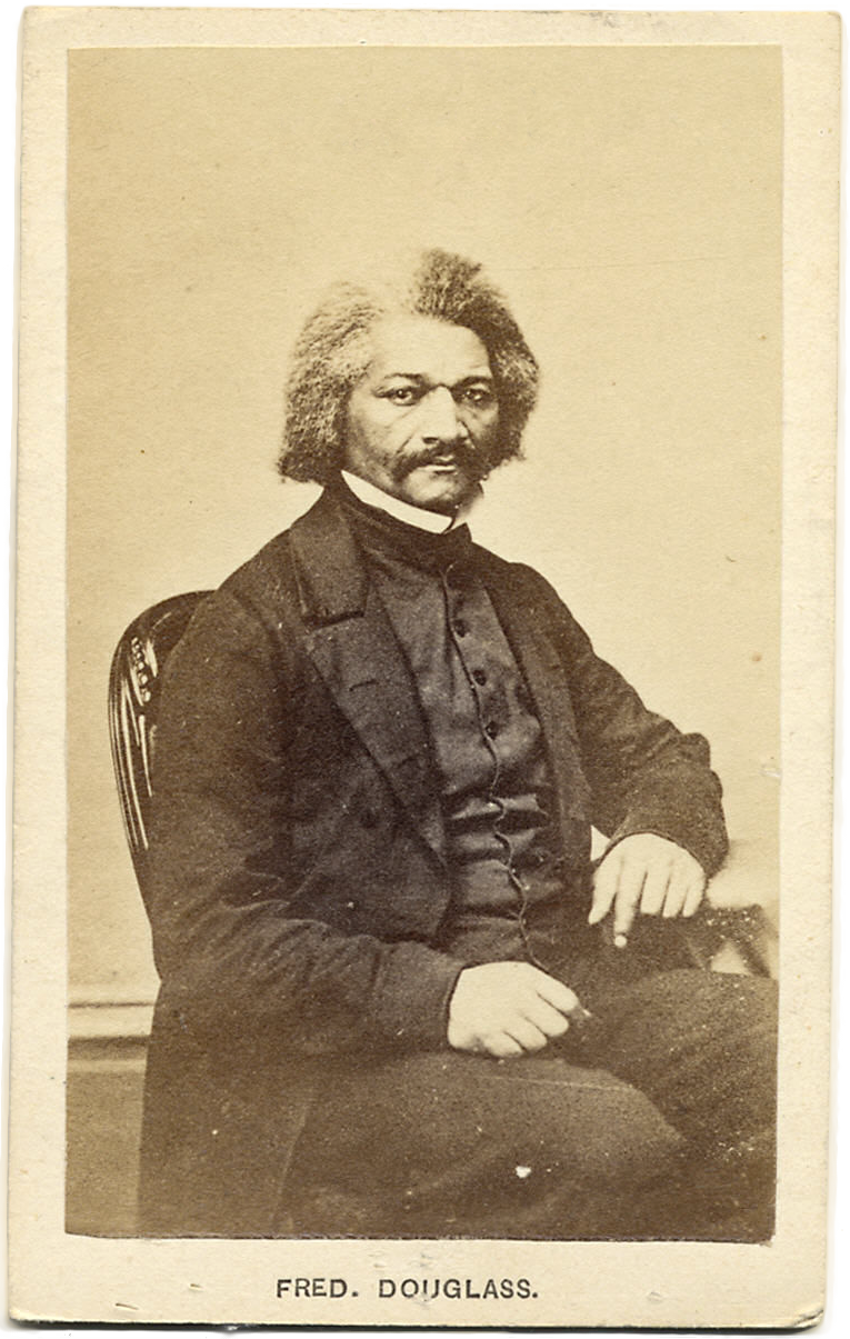 Frederick Douglass